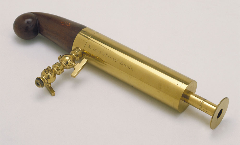 Artist Alessandro VoltaAuthor Nairne & Blunt firmDescription